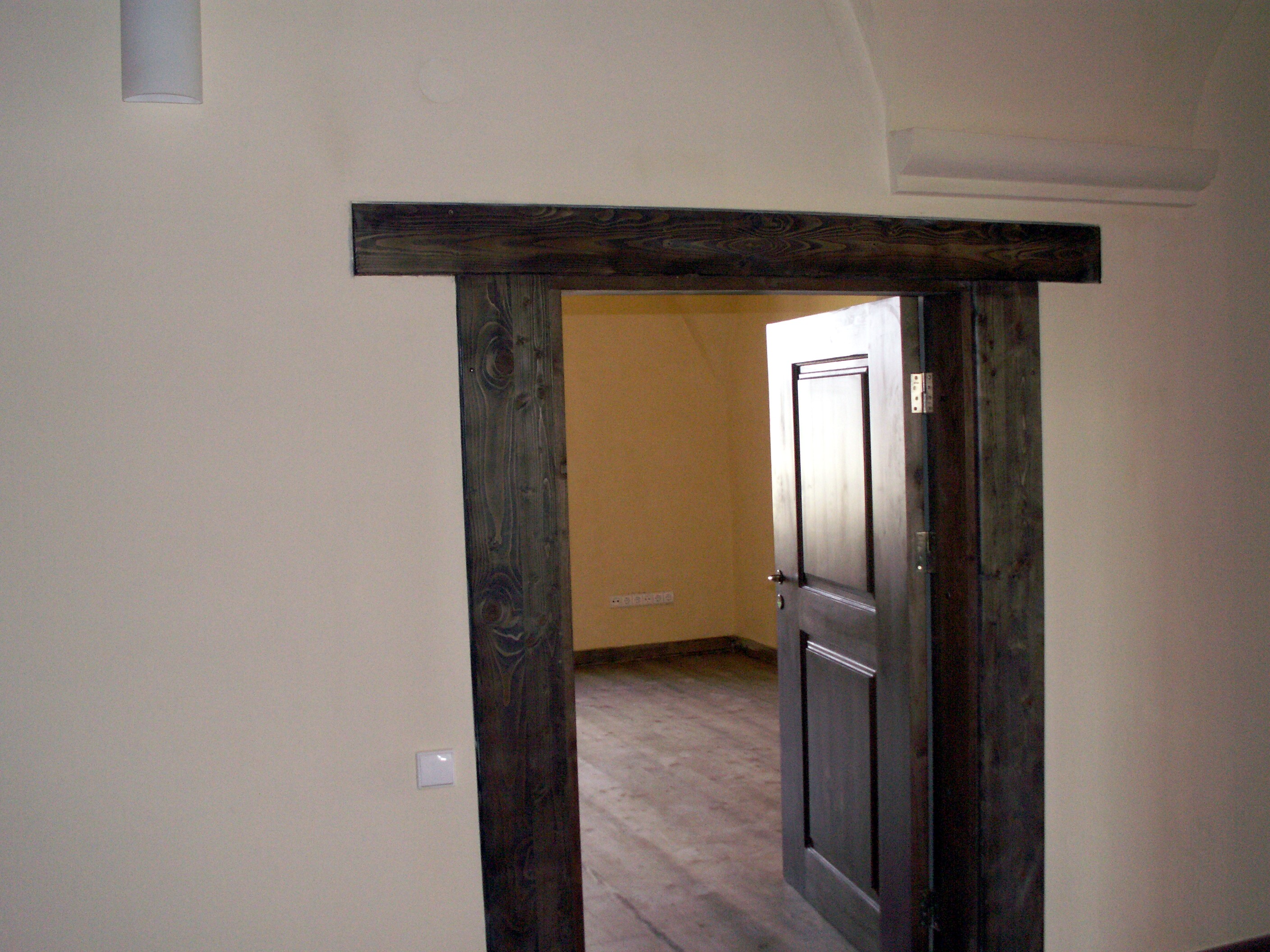 Kražiai collegium